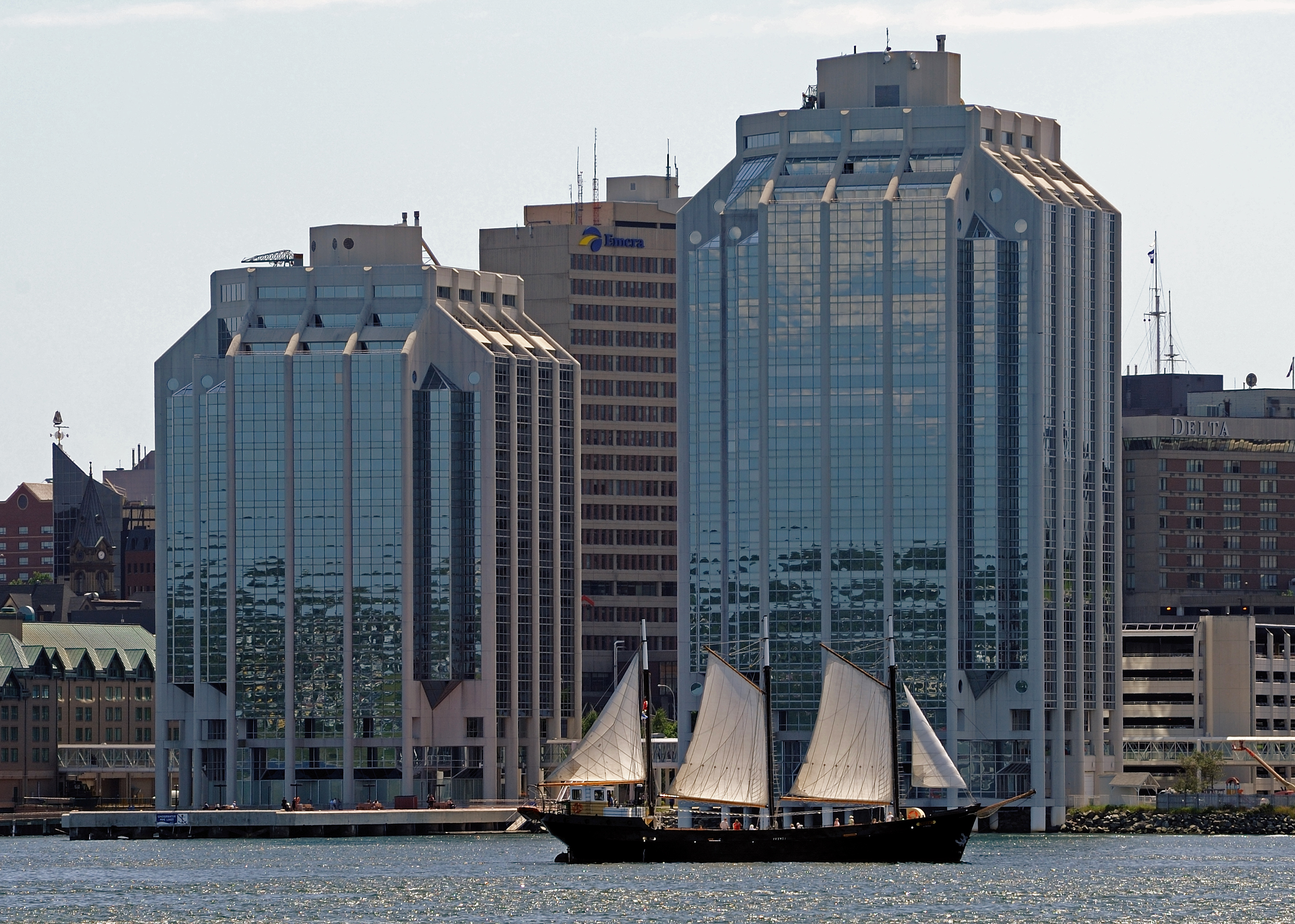 A Tall Ship passes in front of the Purdy's Wharf development.